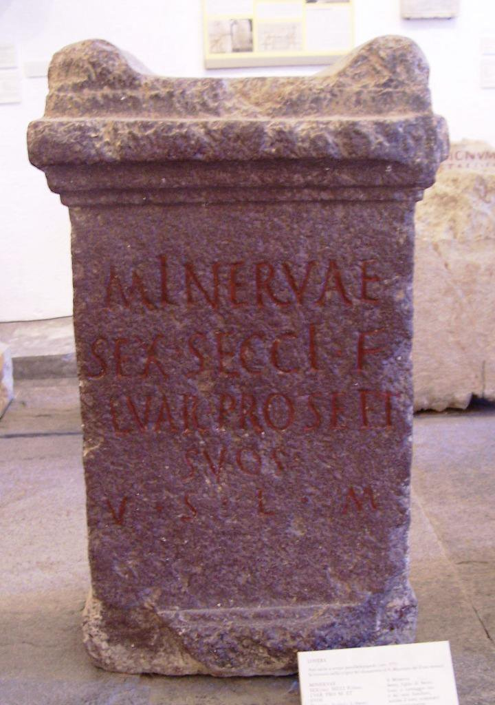 Sacred ara, formerly in the crypt of the monastery of St. Maurice of Friars Minor, now in the Archaeological Museum of Bergamo (inv. 979). Origin: Lovere, Val Camonica